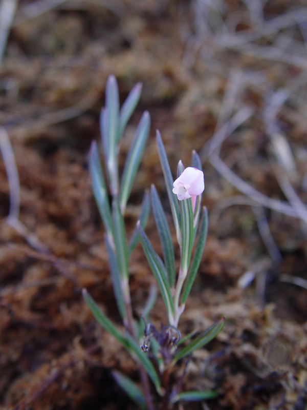 Bog-rosemary (Andromeda polifolia), blooming in Villanders, South Tyrol/Italy